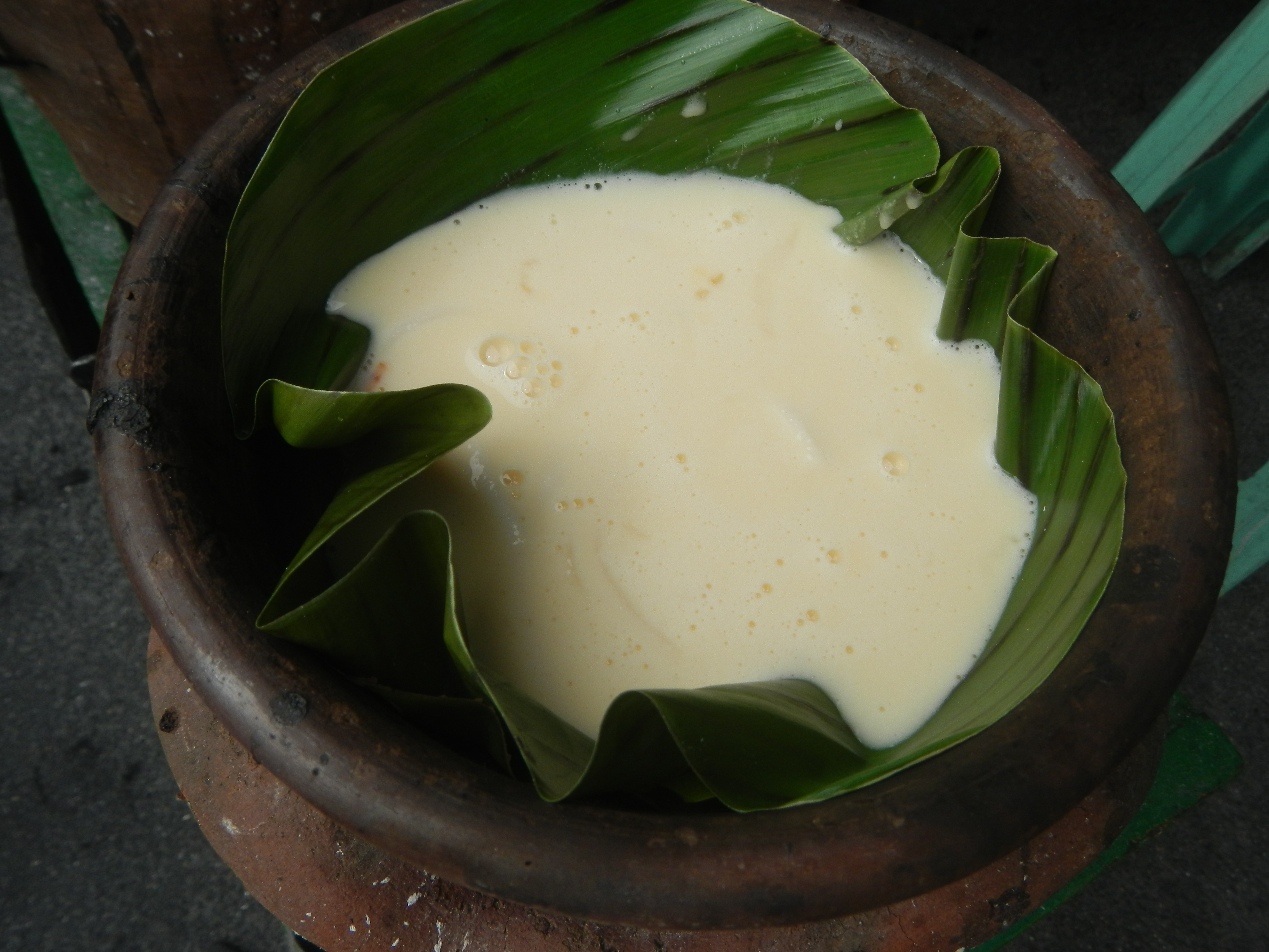 Bibingka and Puto bumbong making in Barangay Pagala 14°58'11"N 120°53'41"E from Poblacion 14°57'17"N 120°54'2"E Baliuag, Bulacan, Bulacan province (Note: Judge Florentino Floro, the owner, to repeat, Donor Florentino Floro of all these photos Judge Floro hereby donate gratuitously, freely and unconditionally all these photos to and for Wikimedia Commons, exclusively, for public use of the public domain, and again without any condition whatsoever).